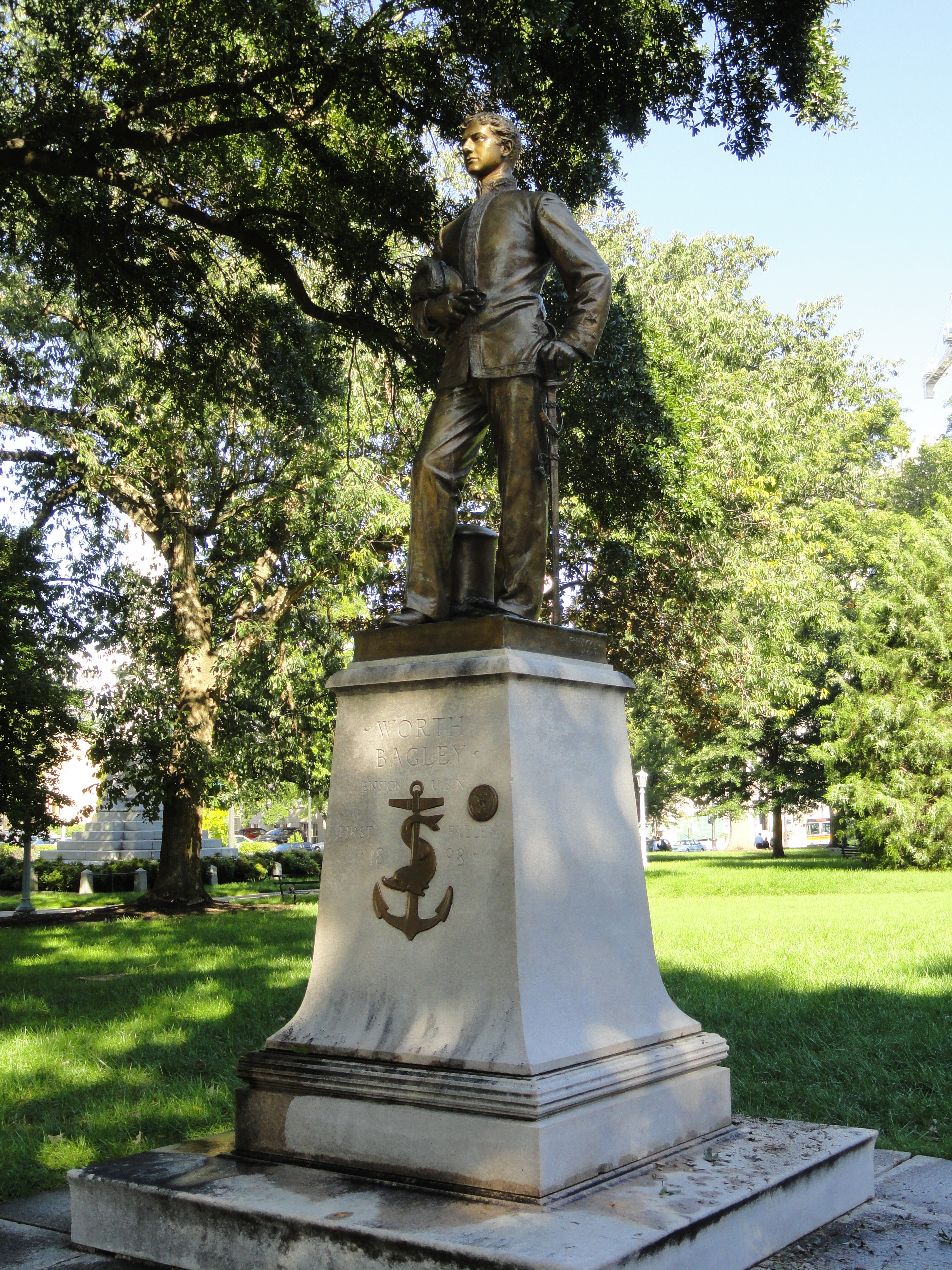 Worth Bagley Memorial by Francis Herman Packer, located on the grounds of the North Carolina State Capitol, Raleigh, North Carolina, USA. Monument dedicated on May 20, 1907. This statue is in the public domain because it was first published before 1923.